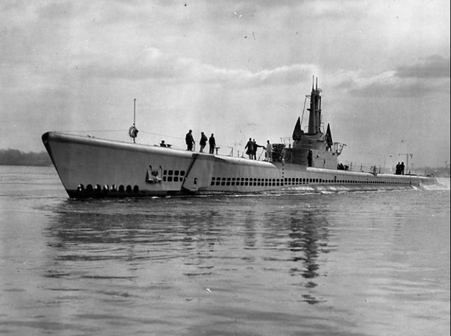 Official U.S. Navy photo of the USS Escolar (SS-294), probably off Portsmouth, N.H., possibly around the time of her commissioning, circa June 1944.